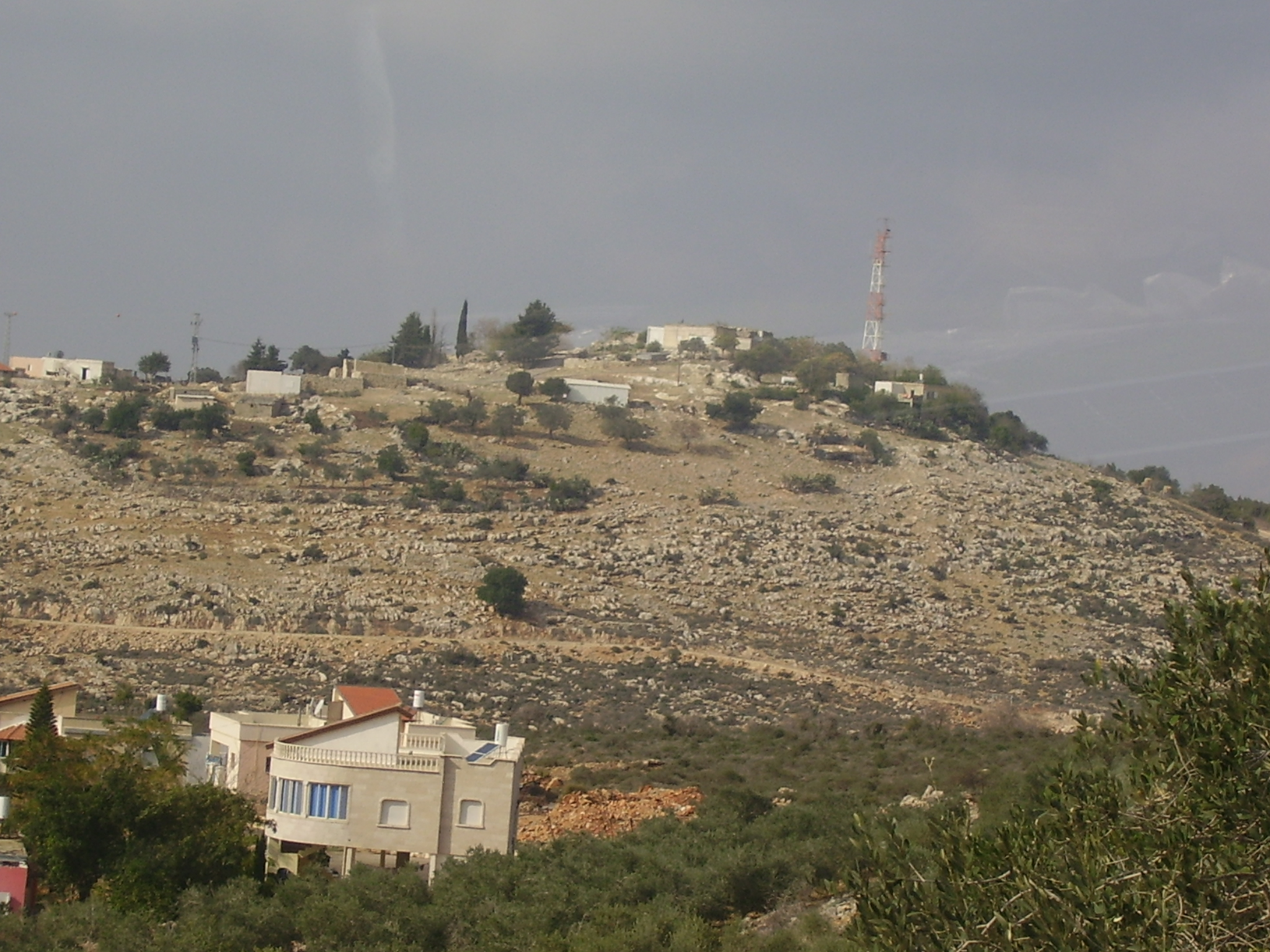 jordikh hill in arab al aramsha village on lebanon border גבעת ג'ורדיח בכפר ערב אל עראמשה על גבול לבנון